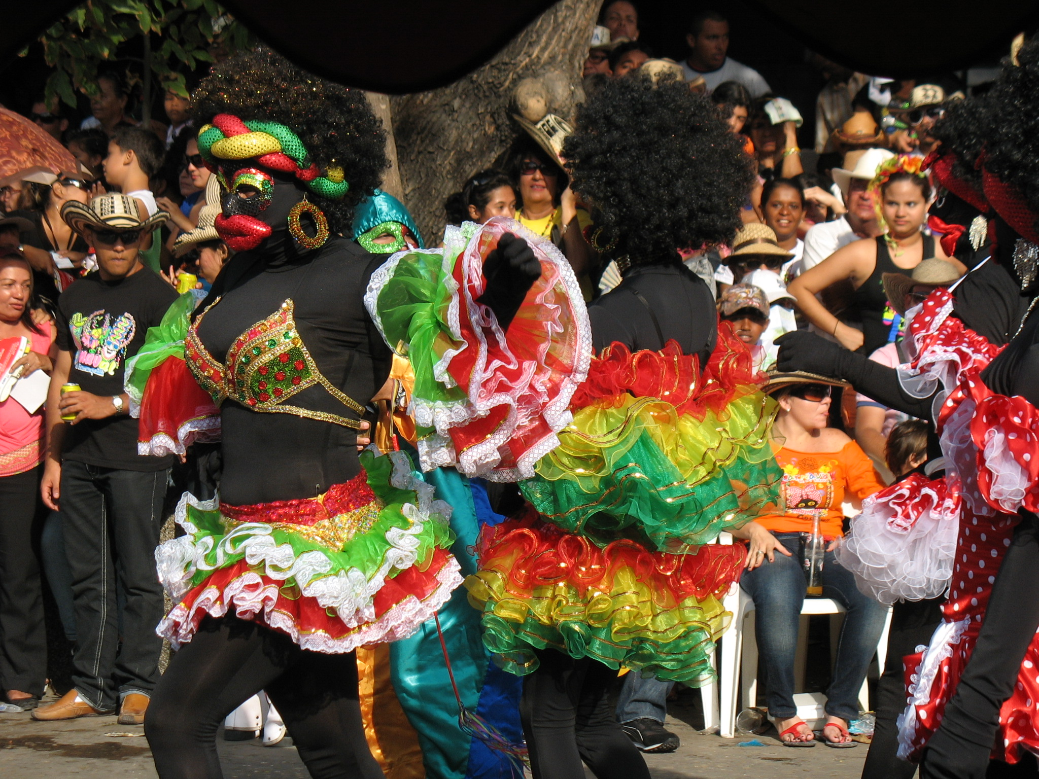 Negrita puloy